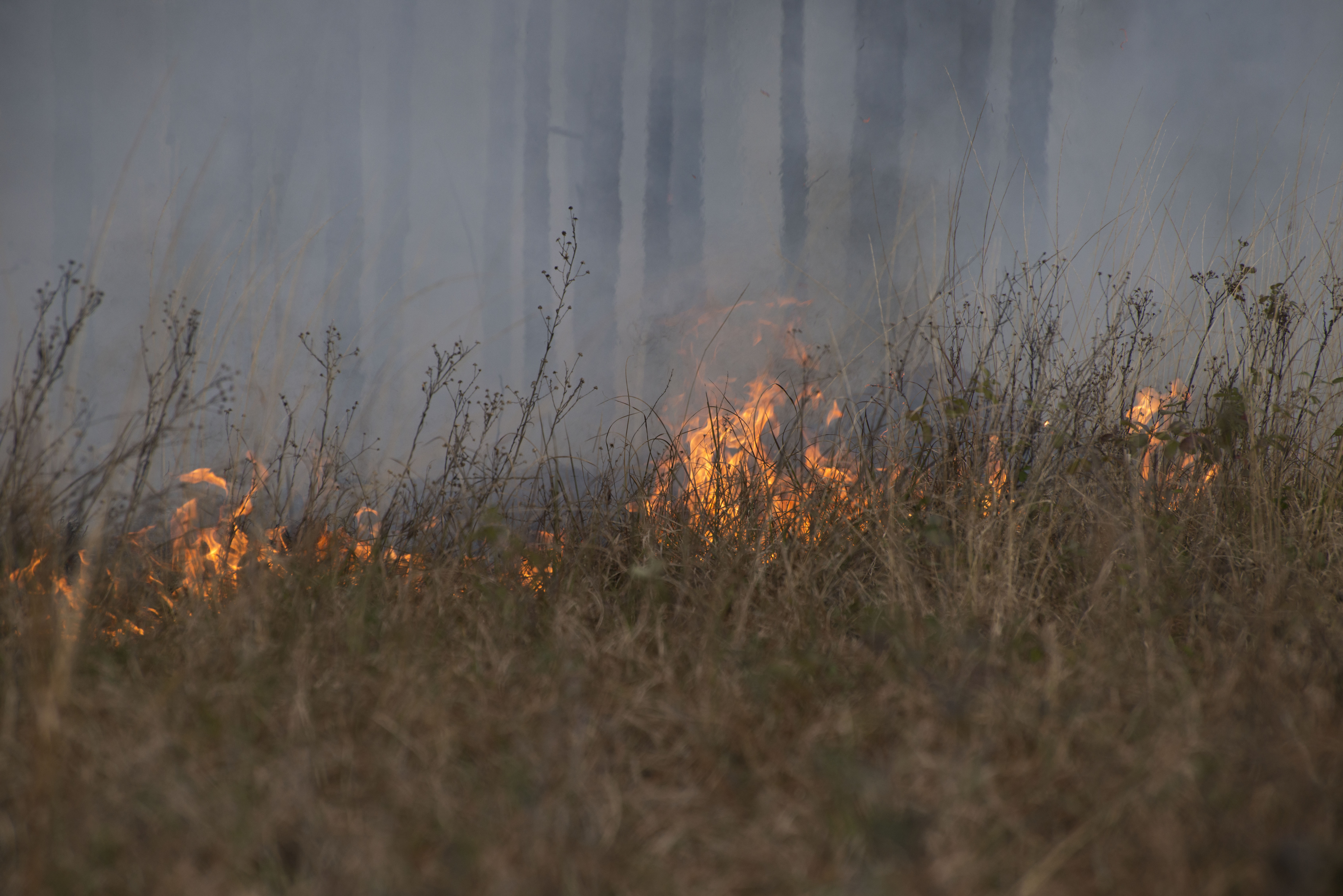 A backing fire in the wiregrass on a prescribed fire at the Joseph W. Jones Ecological Research Center - Photo: USFWS